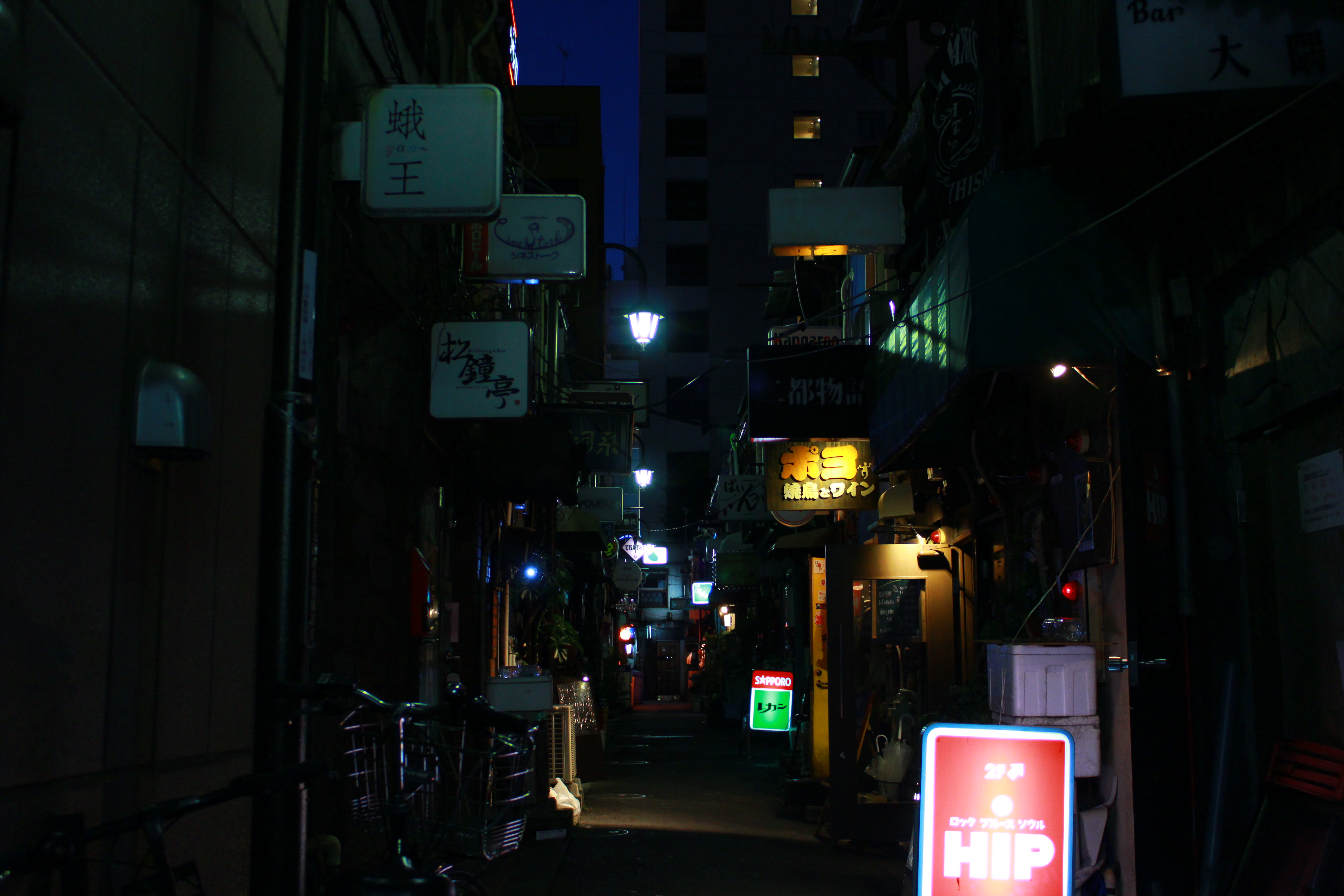 Golden-gai in Shinjuku